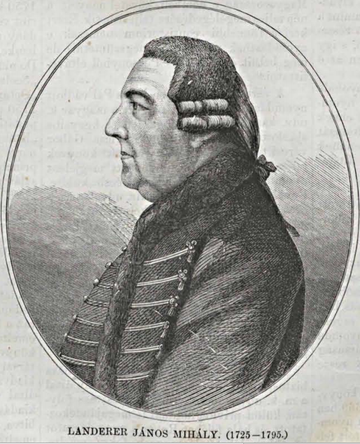 Portrait of Landerer János Mihály